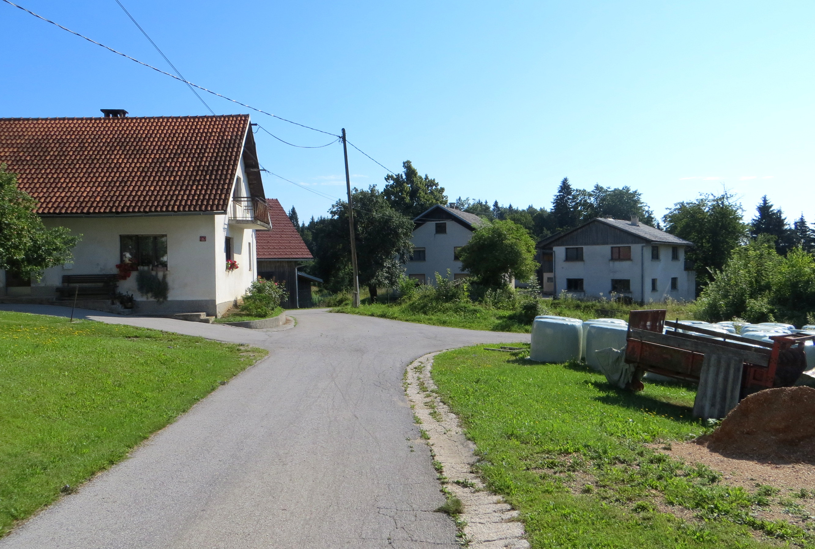 Lešnjake, Municipality of Cerknica, Slovenia